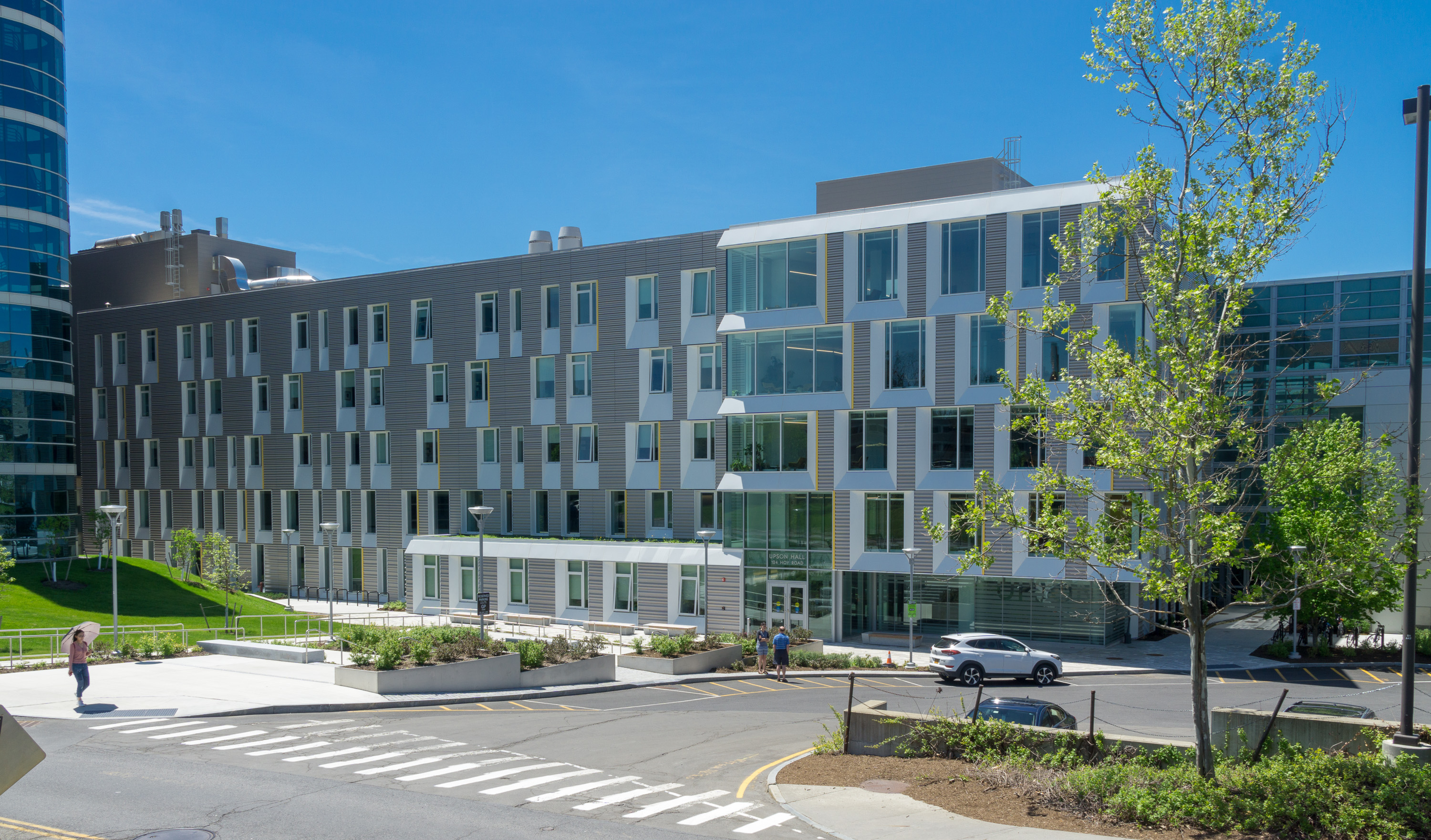 Upson Hall, designed 1956 by Perkins + Will. Renovated 2016-2017 by Perkins + Will. Cornell University, Ithaca, NY.